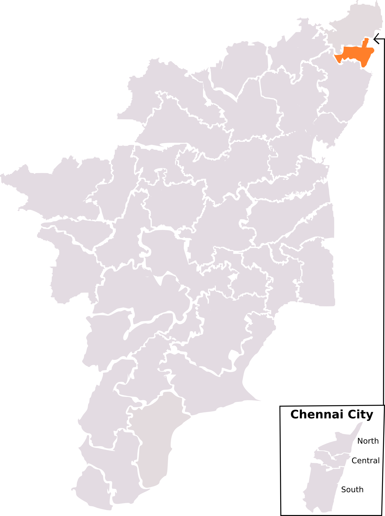 Lok Sabha Election map labeling each constituency for individual pages for Tamil Nadu after delimitation starting 2009 election. Map is based on ECI drawn map from